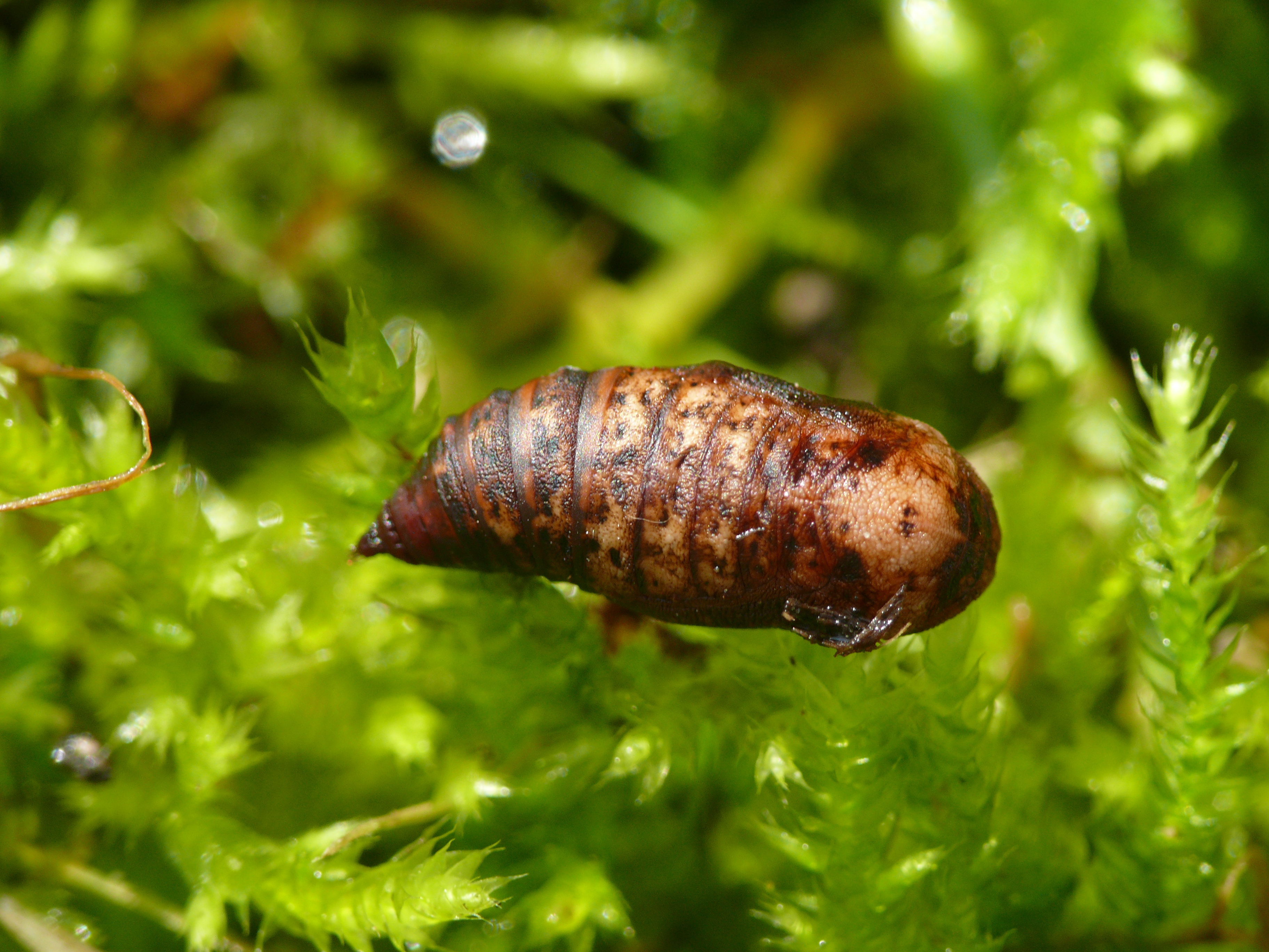 Pupa of Peach Blossom (Thyatira batis)